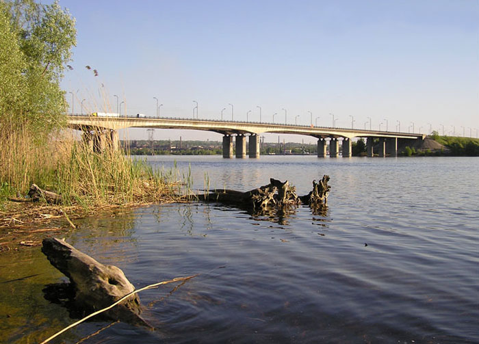 Kaydacky-bridge Dnipropetrovsk from